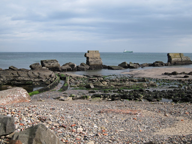 Industrialised beach